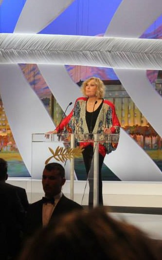 Kim Novak receives a standing ovation while she appears at the Closing Ceremony (2013 Cannes Film Festival) to present the Grand Prix Award to the Coen brothers for Inside Llewyn Davis